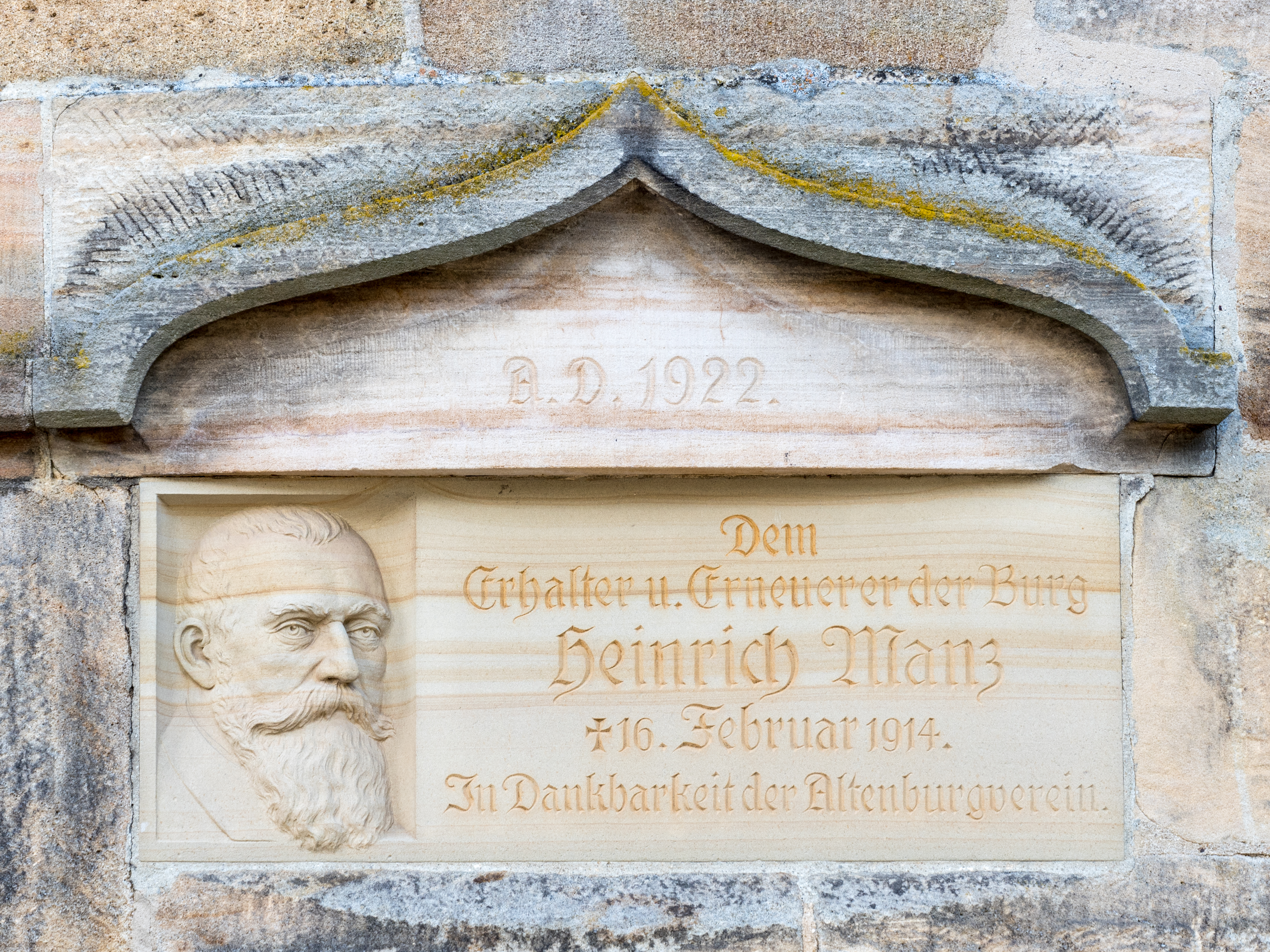 Commemorative plaque of Heinrich Manz in the courtyard of the Altenburg in Bamberg